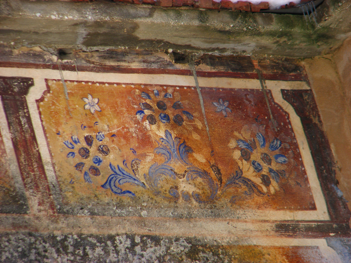 External decor (upper part of western wall, near entrance) of the Ottoman seraglio of old Voshtina (today's Pogoniani).